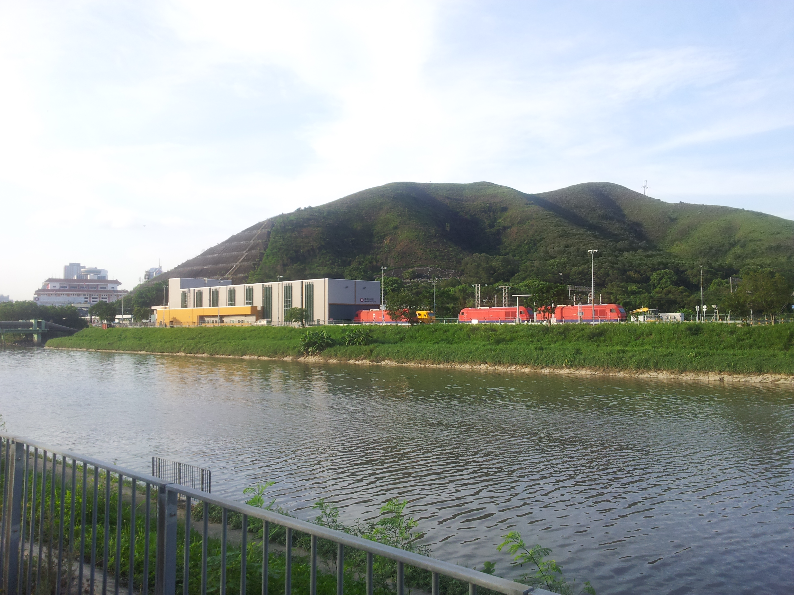 running shed in lo wu